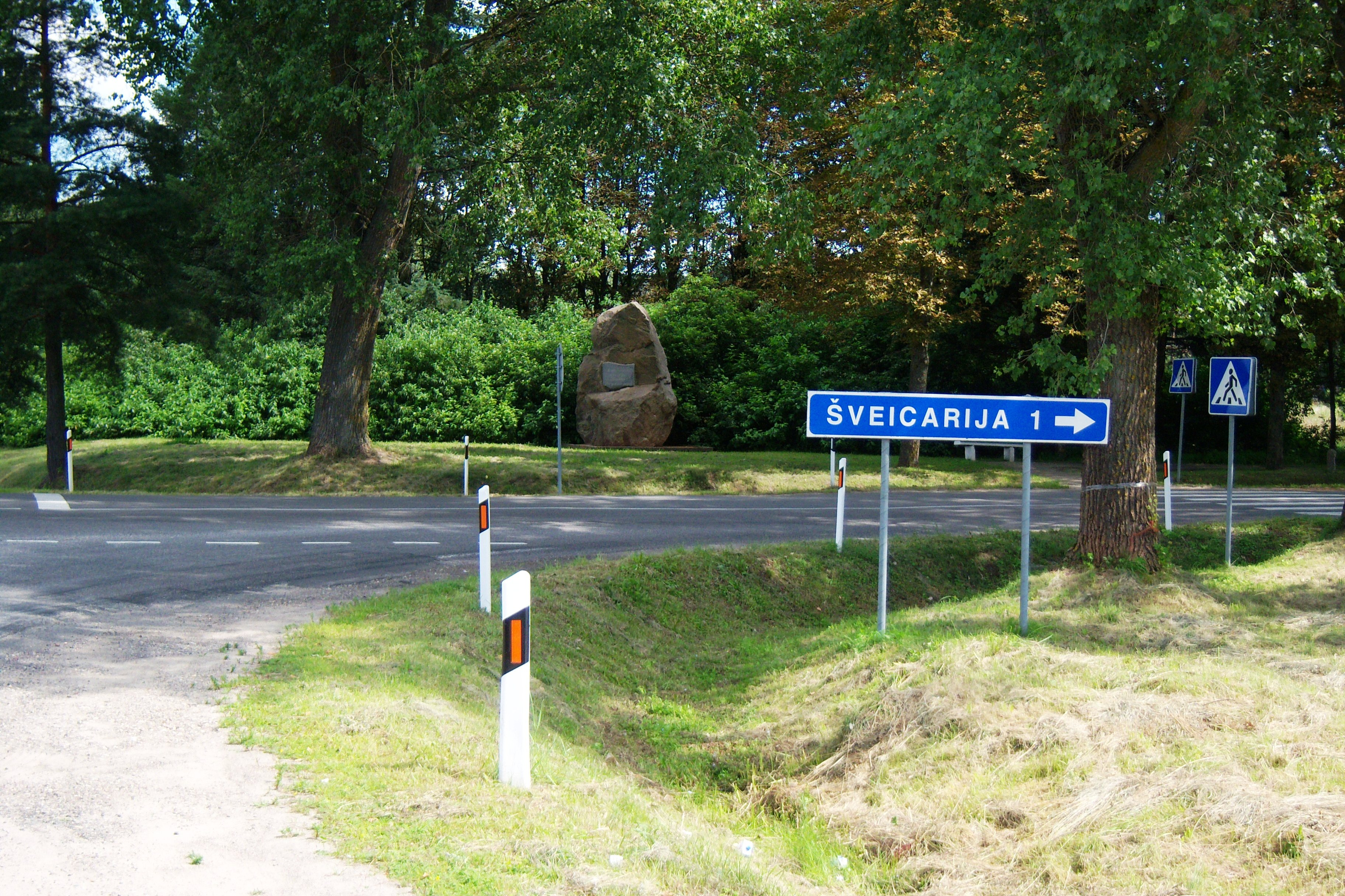 Šveicarija, Jonava District, Lithuania